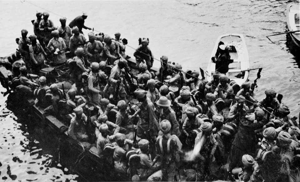 29th Indian Infantry Brigade landed at Gallipoli on 1 May 1915 having been shipped from Port Said in Egypt. Commanded by Major-General Vaughn Cox, it was sent to Cape Helles to support the British 29th Division's attempts to break out.